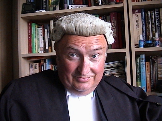 John Collins, Barrister